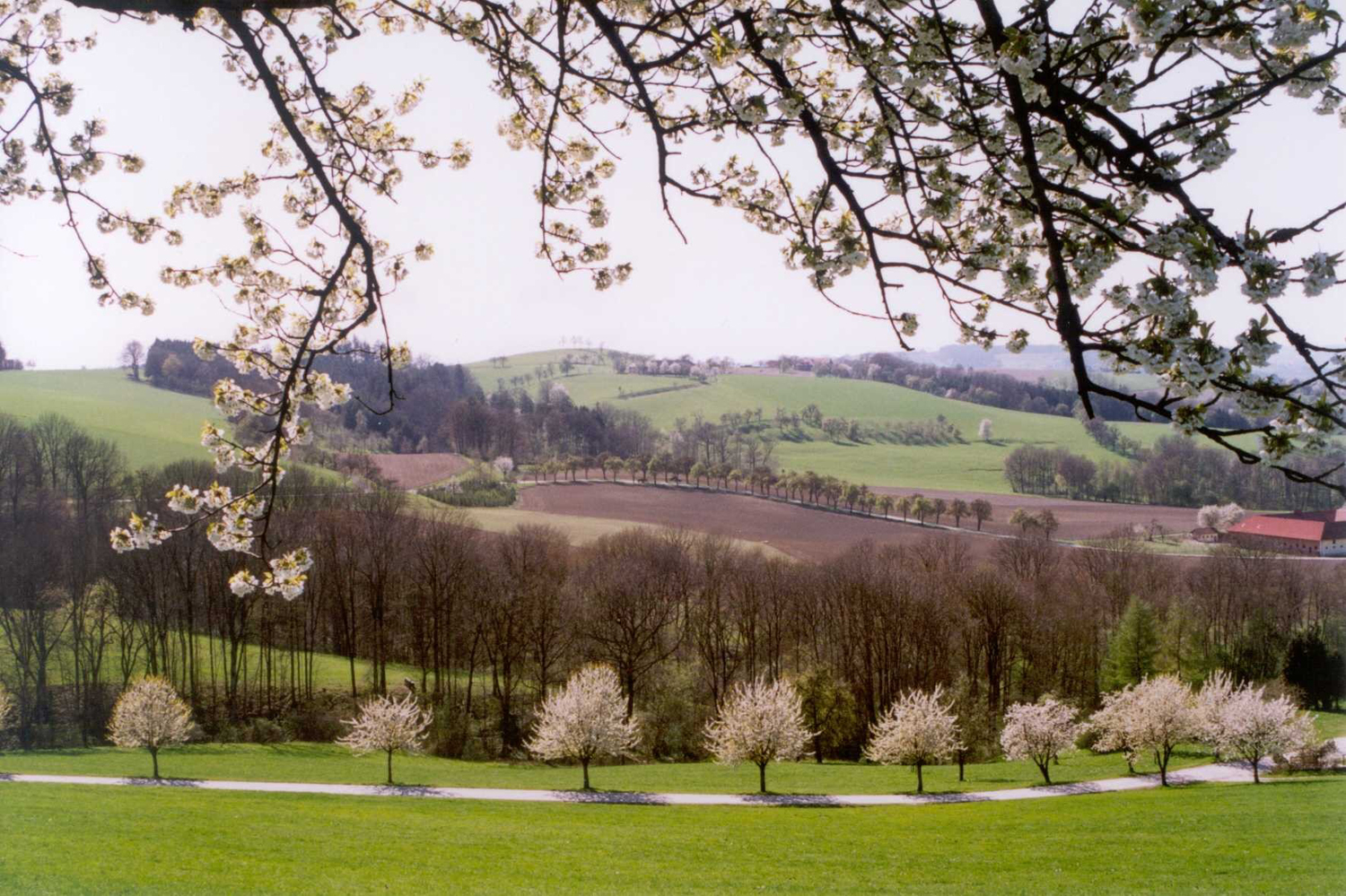 blossom cherry trees in Scharten